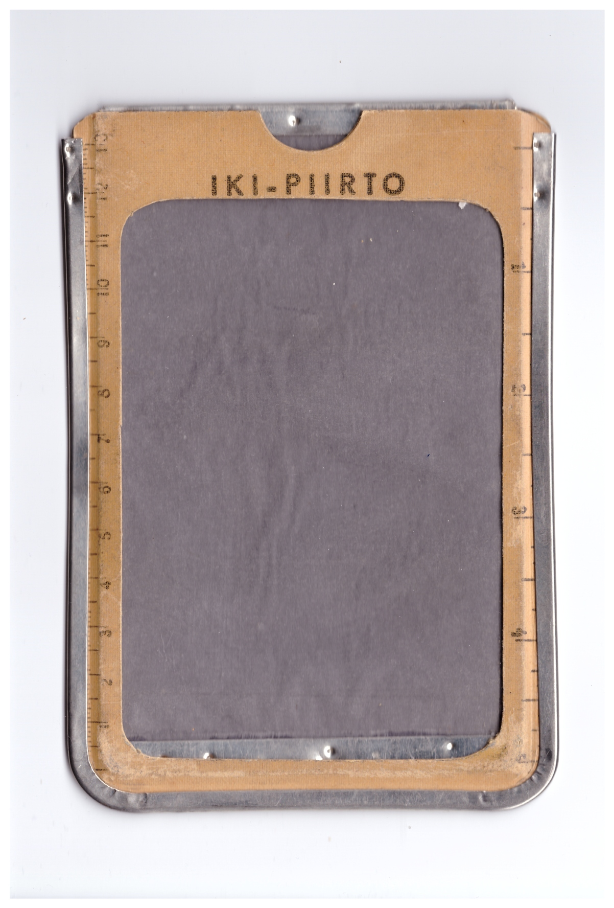 Photograph of “Iki-piirto” writing pad, a Finnish variety of Printator, known in German language as “Wunderblock”, as described by Sigmund Freud in his essay “A Note upon the ‘Mystic Writing-Pad’” from 1925. This writing aid has allegedly been used in Finnish schools circa 1950s when teaching mathematics, as there is a multiplication table on the backside (see “Other versions”, below).